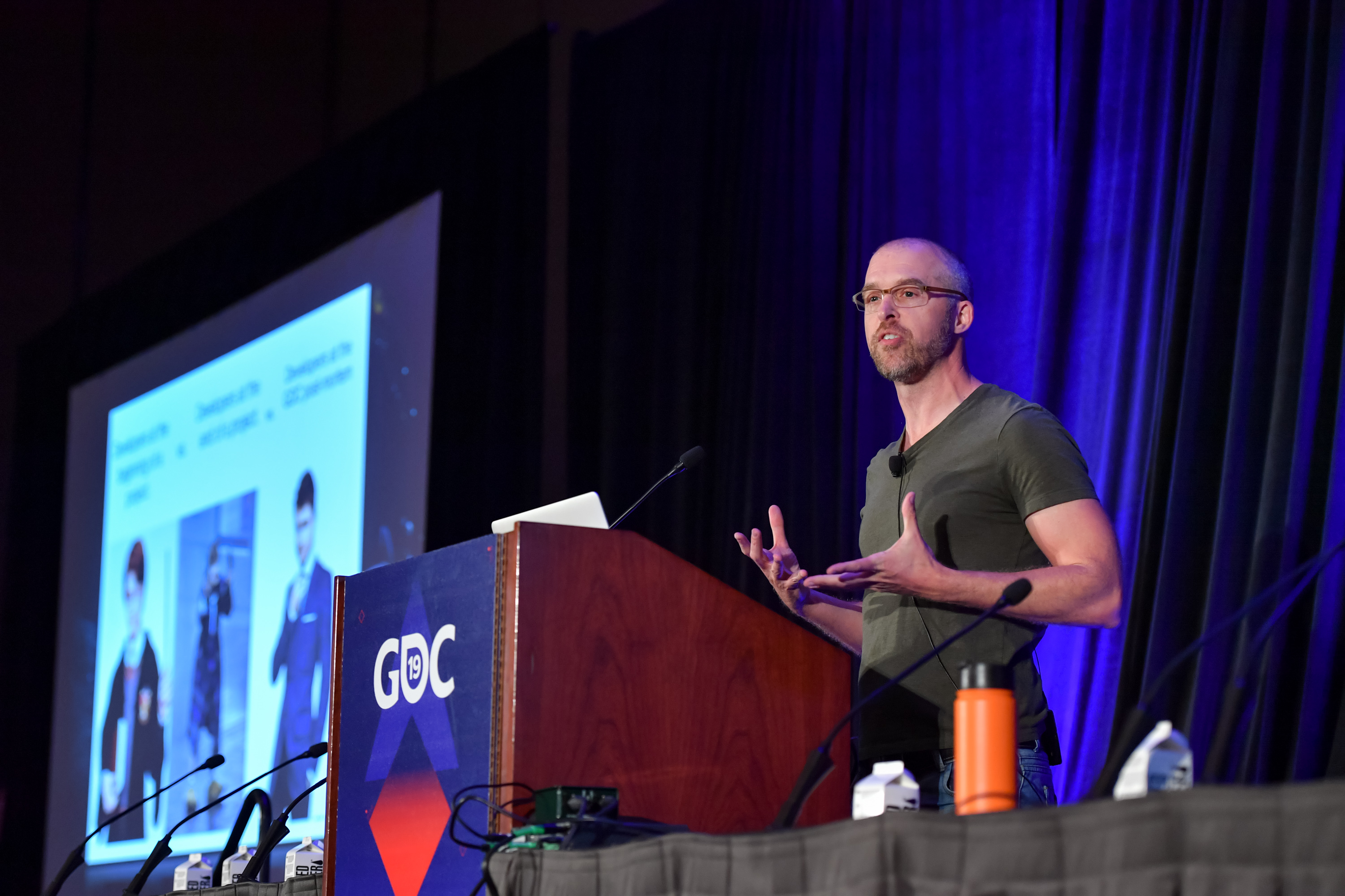 Charlie Cleveland of Unknown Worlds Entertainment presenting at the Game Developers Conference 2019